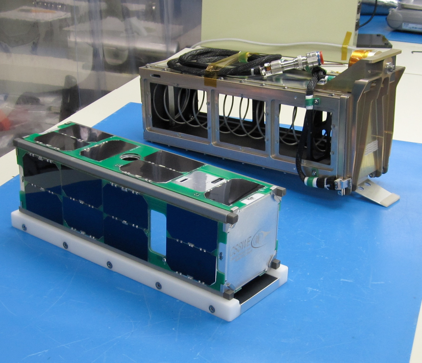 The CSSWE CubeSat and PPOD just prior to integration